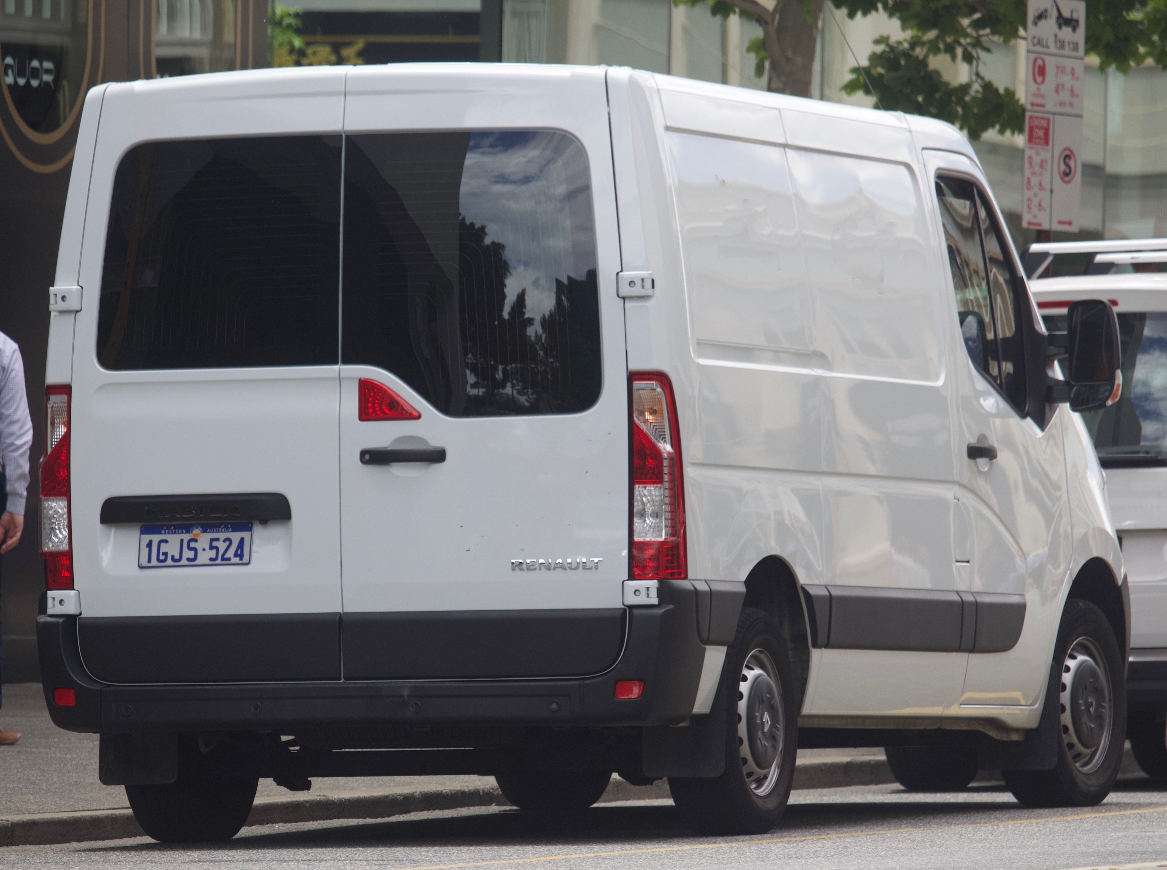 2017 Renault Master (X62) SWB van. Photographed in Perth, Western Australia, Australia.